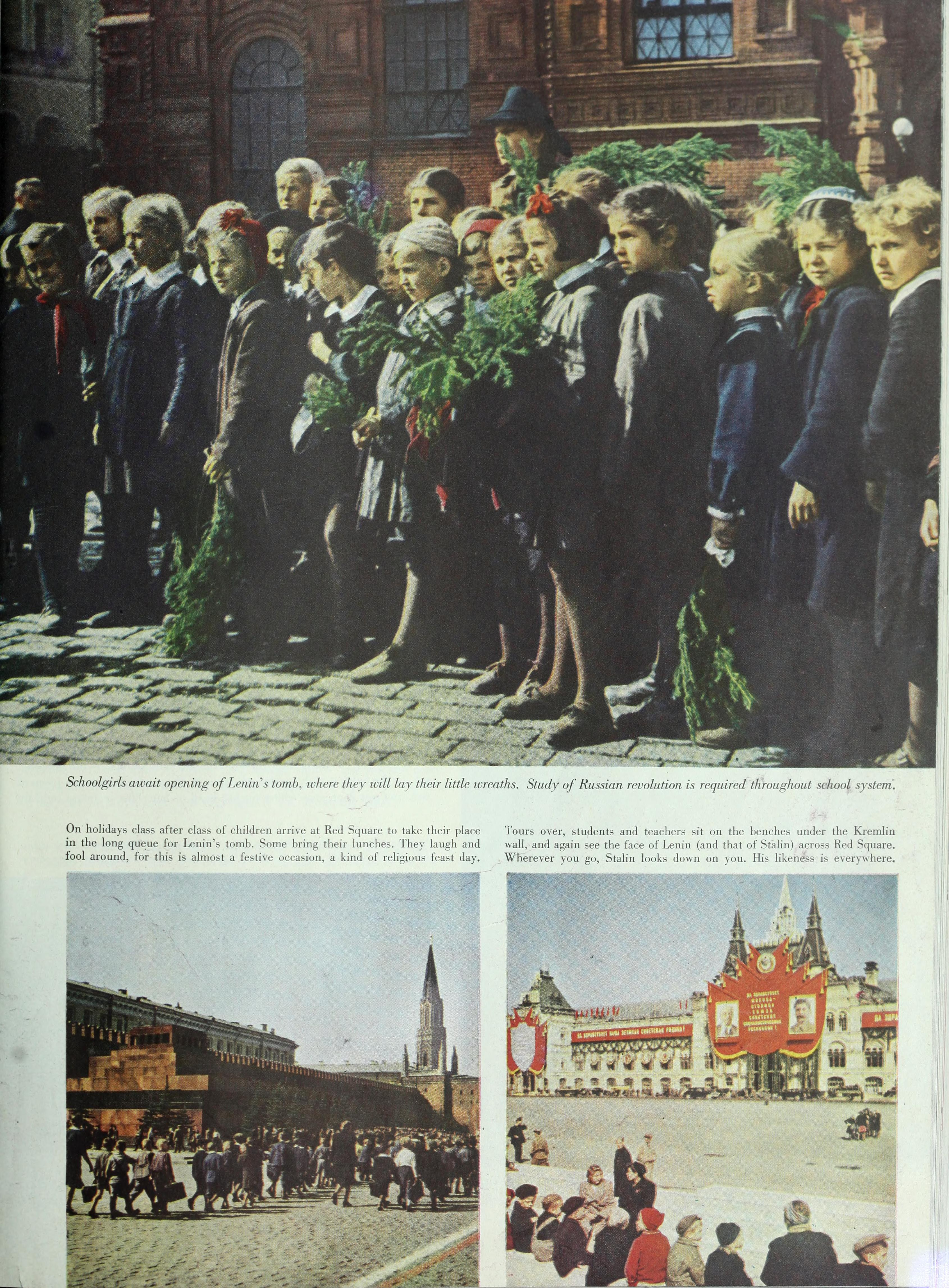 Title: The Ladies' home journal Year: 1889 (1880s) Authors: Wyeth, N. C. (Newell Convers), 1882-1945 Subjects: Women's periodicals Janice Bluestein Longone Culinary Archive Publisher: Philadelphia : (s.n.) Text Appearing Before Image: T7. •*■***»***.« In*.. Schoolgirls await opening of Lenin s tomb, where they will lay their little wreaths. Study of Russian revolution is required throughout school system. On holidays class after class of children arrive at Red Square to take their placein the long queue for Lenins tomb. Some bring their lunches. They laugh andfool around, for this is almost a festive occasion, a kind of religious feast day. Tours over, students and teachers sit on the benches under the Kremlinwall, and again see the face of Lenin (and that of Stalin) across Red Square.Wherever you go, Stalin looks down on you. His likeness is everywhere. Text Appearing After Image: '